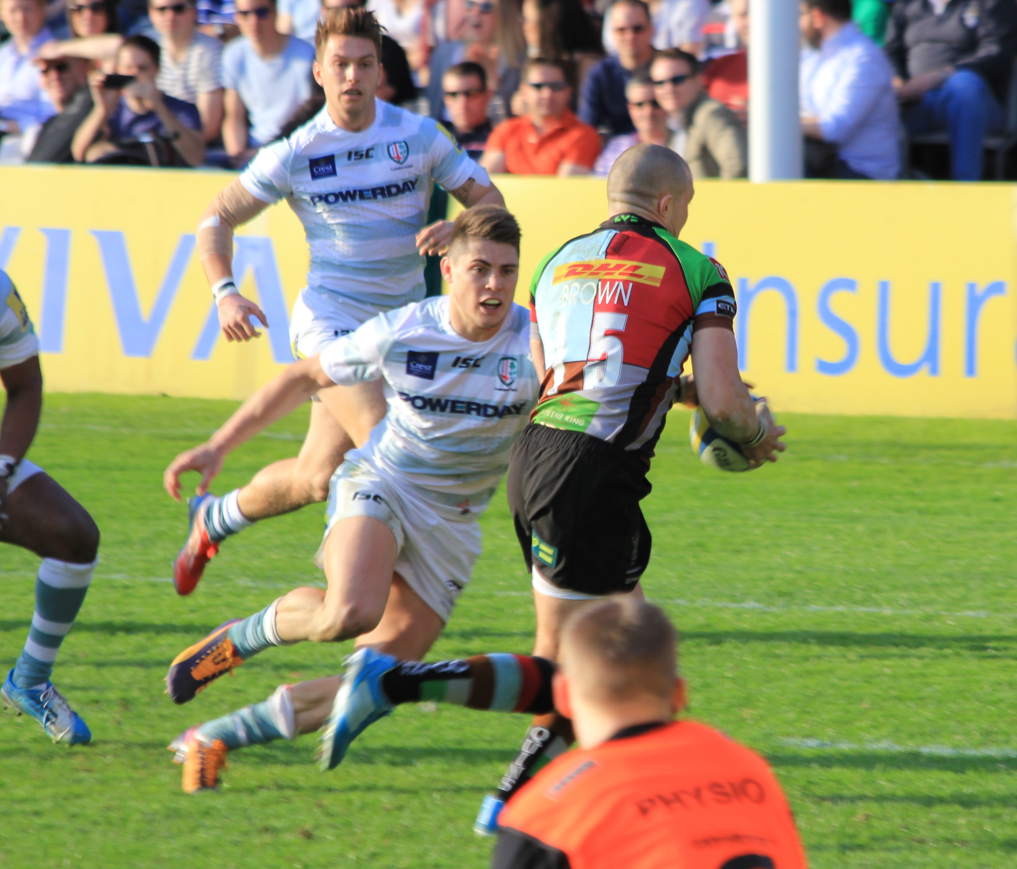 Mike Brown getting past O'Connor again 2013-14 English Premiership Harlequins vs London Irish